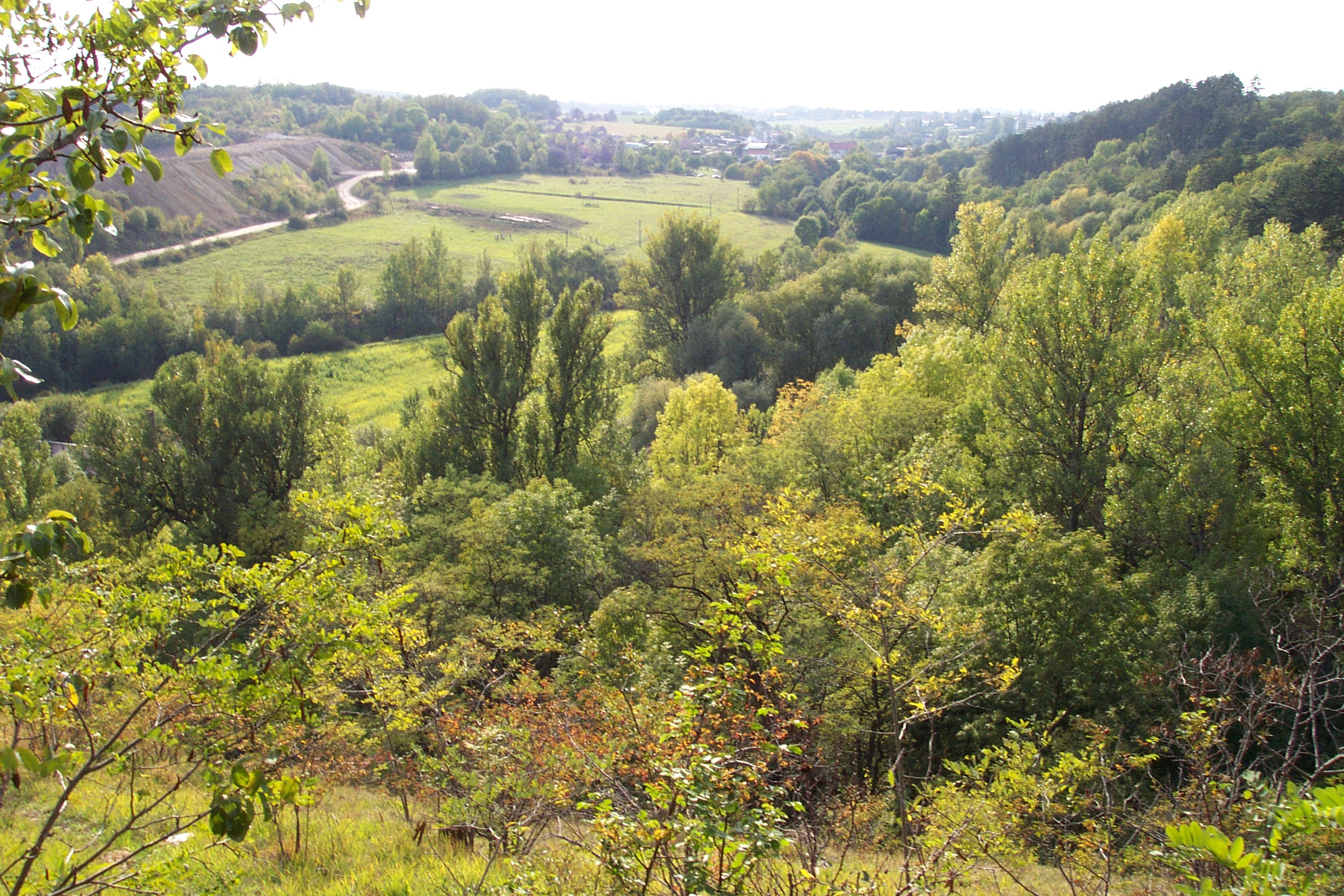 Dalejský potok Valley in Prague, upper part of the natural park